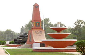 The Barki Memorial was constructed in 1969 to perpetuate the memory of the soldiers of the 7 Infantry Division who made the Supreme sacrifice on the battle field in 1965 and paved the way for the fall of Barki a town situated at a distance of 15 miles South East of Lahore. The foundation stone of this memorial was laid by Lt Gen Harbakhsh Singh VC on September 11,1969 and unveiling ceremony was performed by Lt Gen HK Sibal MVC. The memorial which now forms a part of Saragarhi Complex has a pillar in the centre, a Patten tank and a Barki mile stone on the south and a water fountain on the North The pillar is 27 feet high and is built of red and white sand stone and gneise. The mouldings and relief carvings are in the classical Indian architectural style. The fountain denotes symbolically that the memory of those who laid down their lives will for ever remain green and lush by an abundant spray of water.